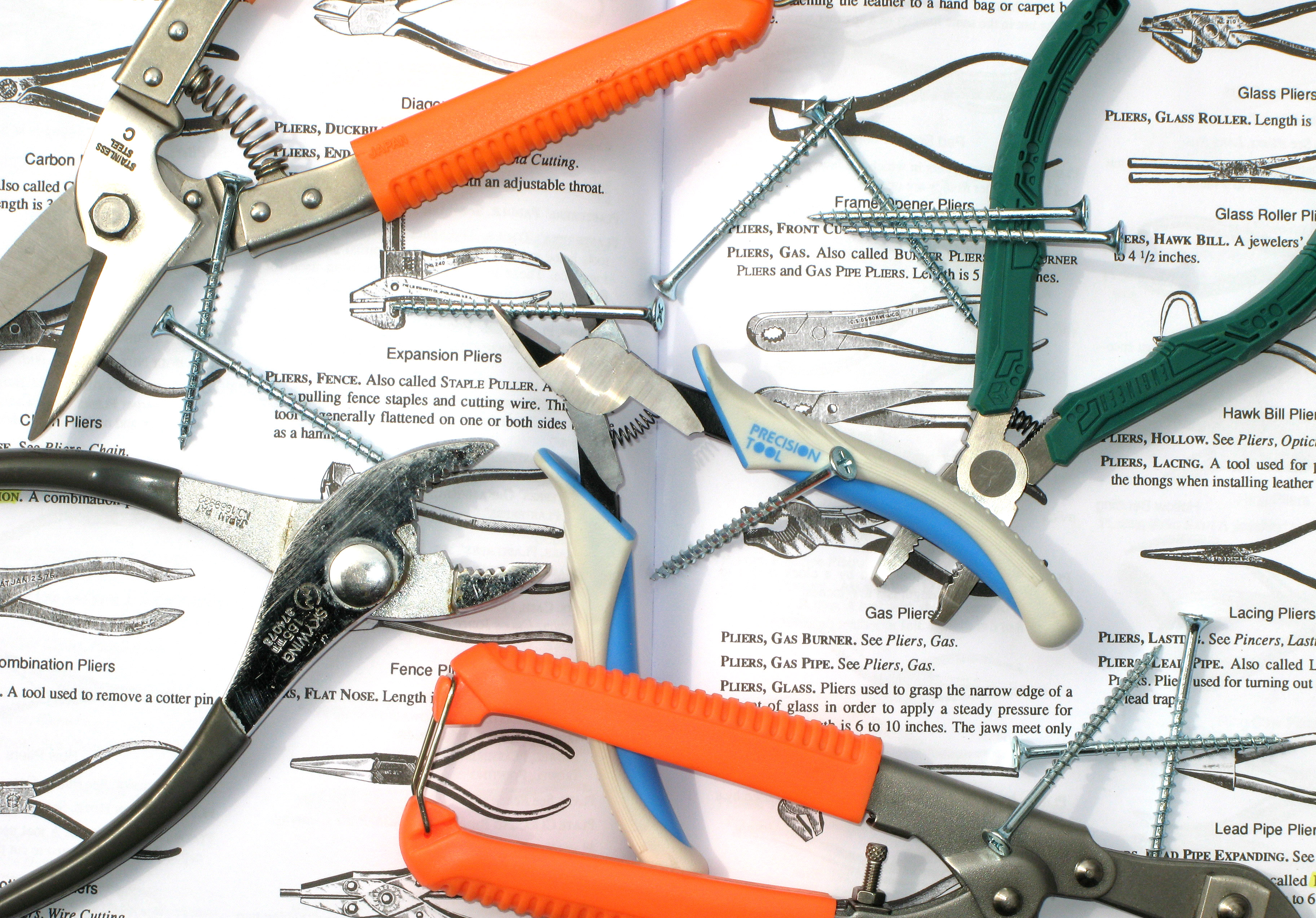 Dictionary of Hand Tools